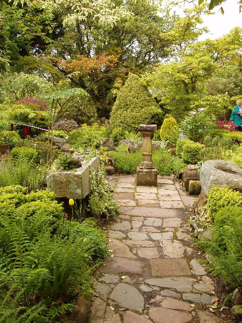 Garden of Broughton House, Kirkcudbright, home of artist E A Hornel. E A Hornel was a well known artist in Scotland from the 1880s to 1930. He visited Japan in 1893 and this influenced his garden design. He was born in Australia in 1864, but his family returned to their home area in Kirkcudbright soon after. National Trust for Scotland own the house.